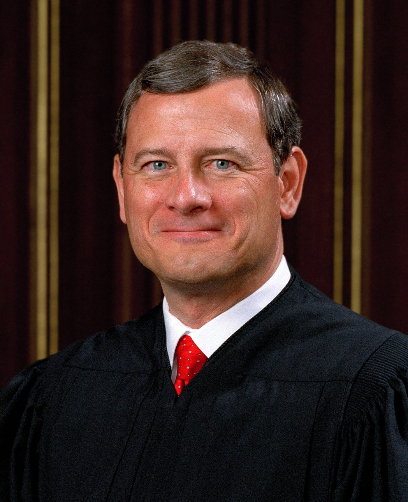 John G. Roberts, Jr., Chief Justice of the United States of America (cropped version of official photo)